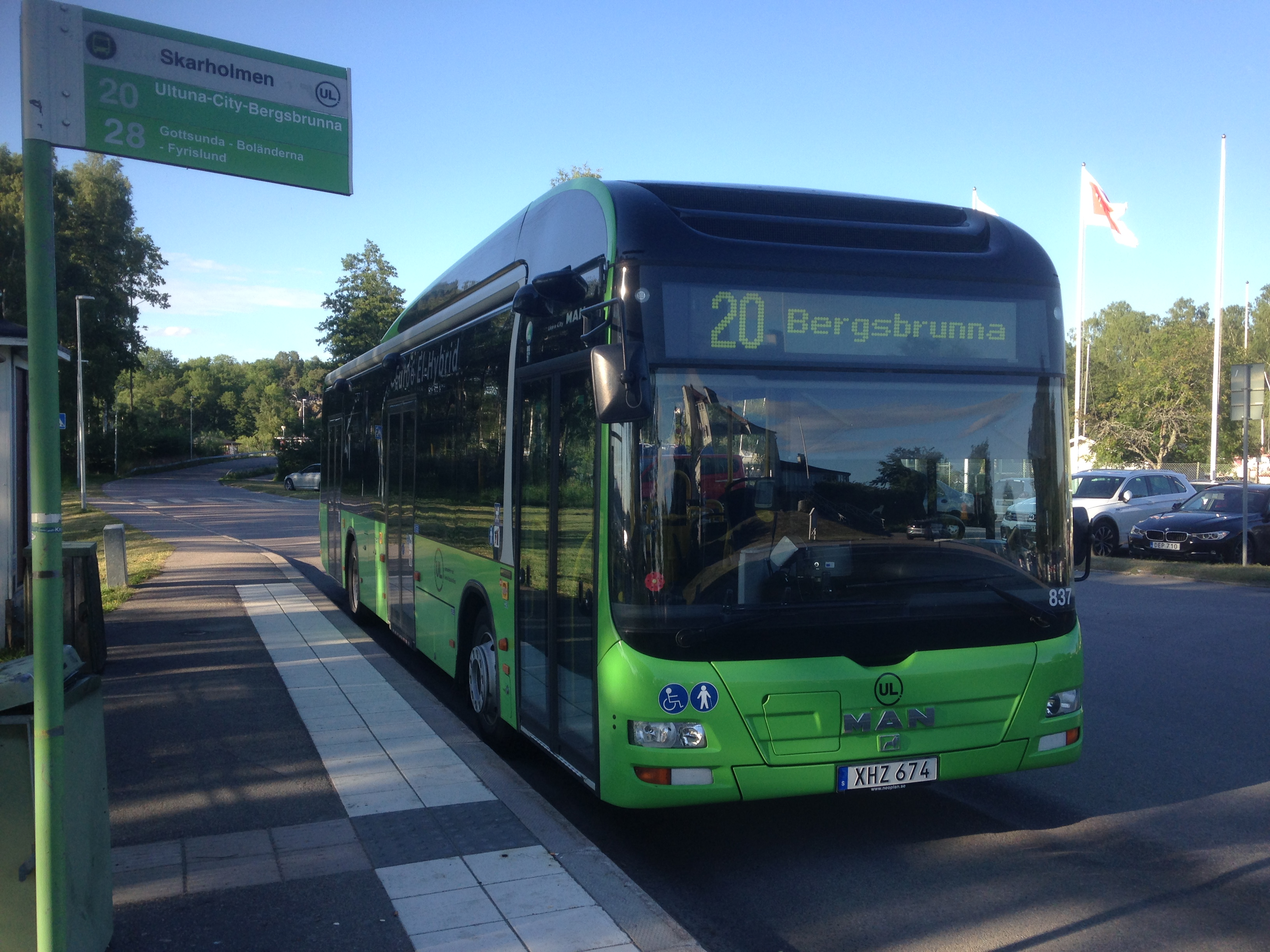 A MAN hybrid electric powered citybus a little bit outside Uppsala in Sweden.